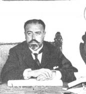 Spanish Politician Santiago Alba